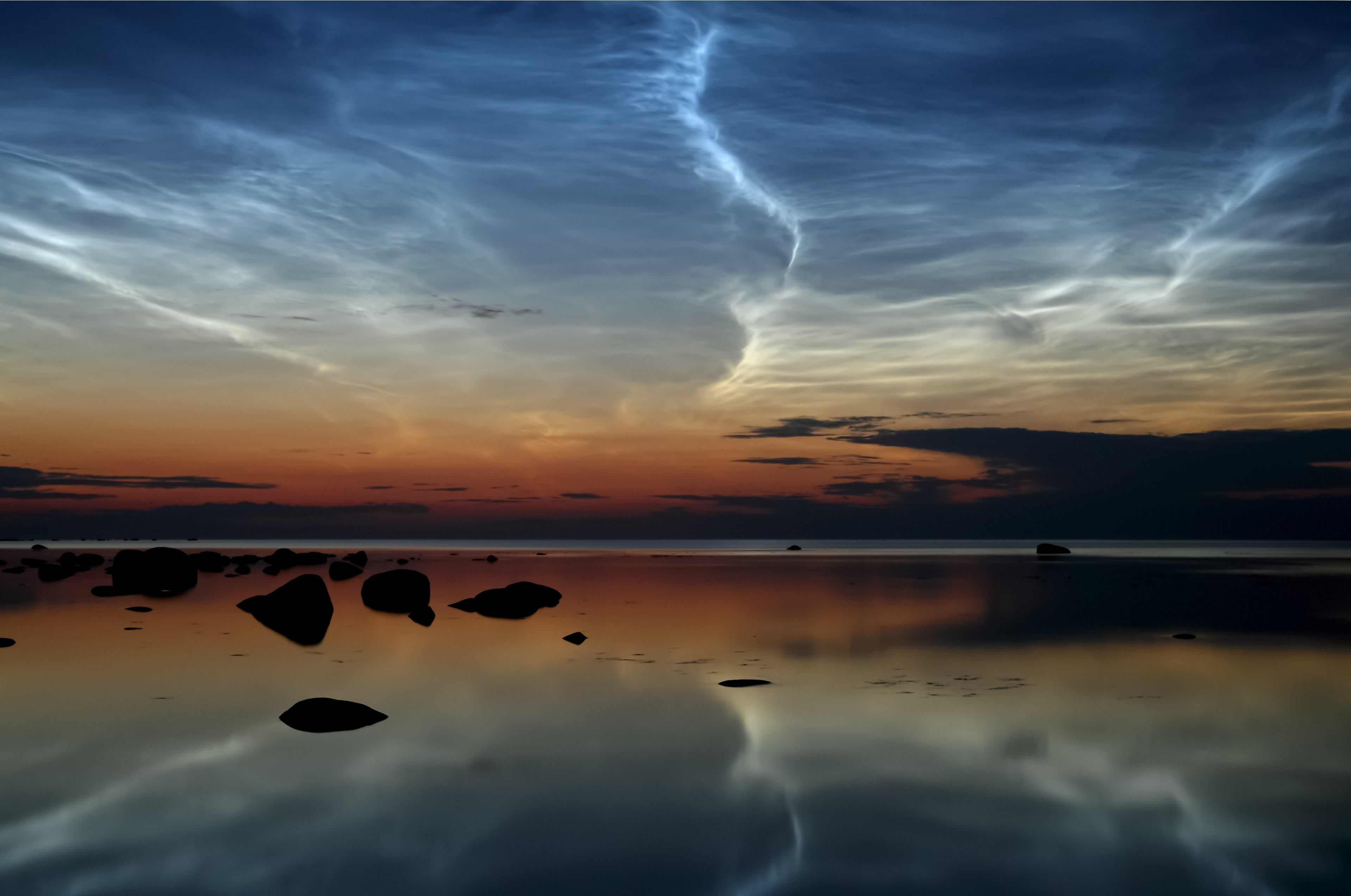 Noctilucent clouds near the northern tip of Estonia